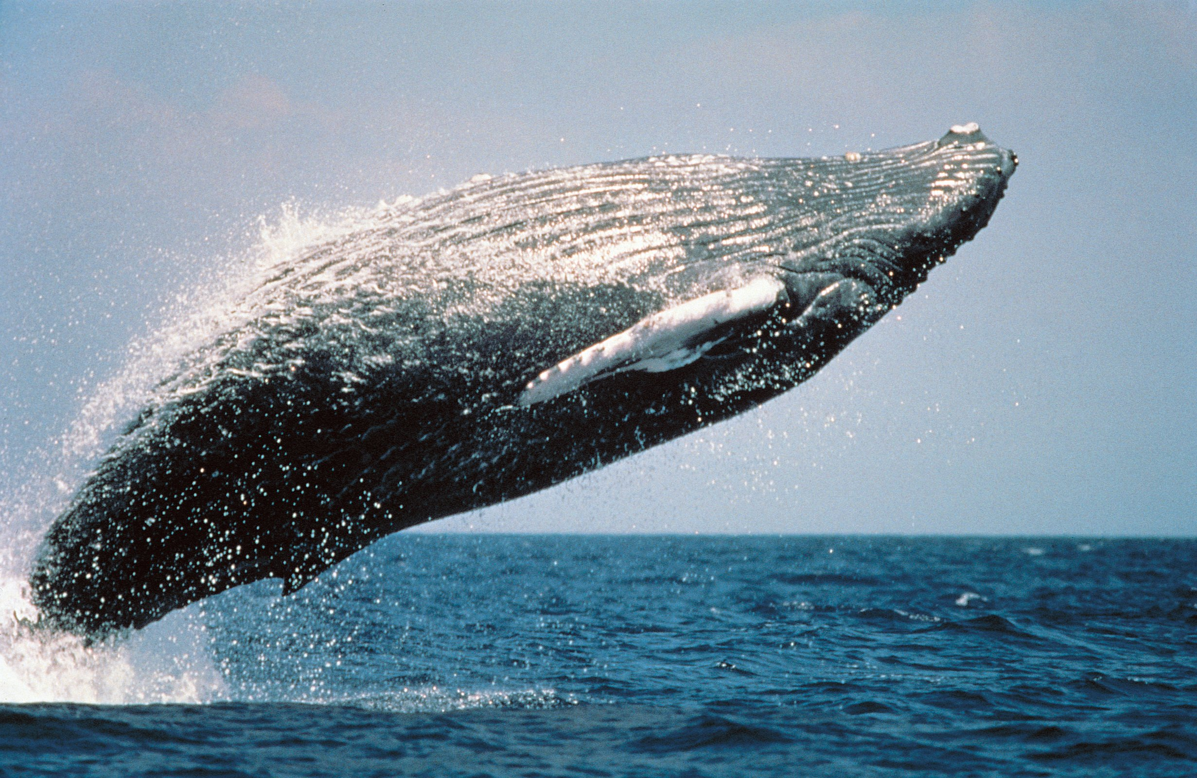 Humpback Whale (Megaptera novaeangliae) breaching.